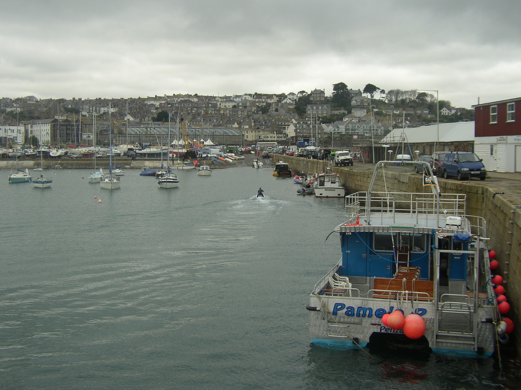 The Penzance harbour, city of Cornwall in England.